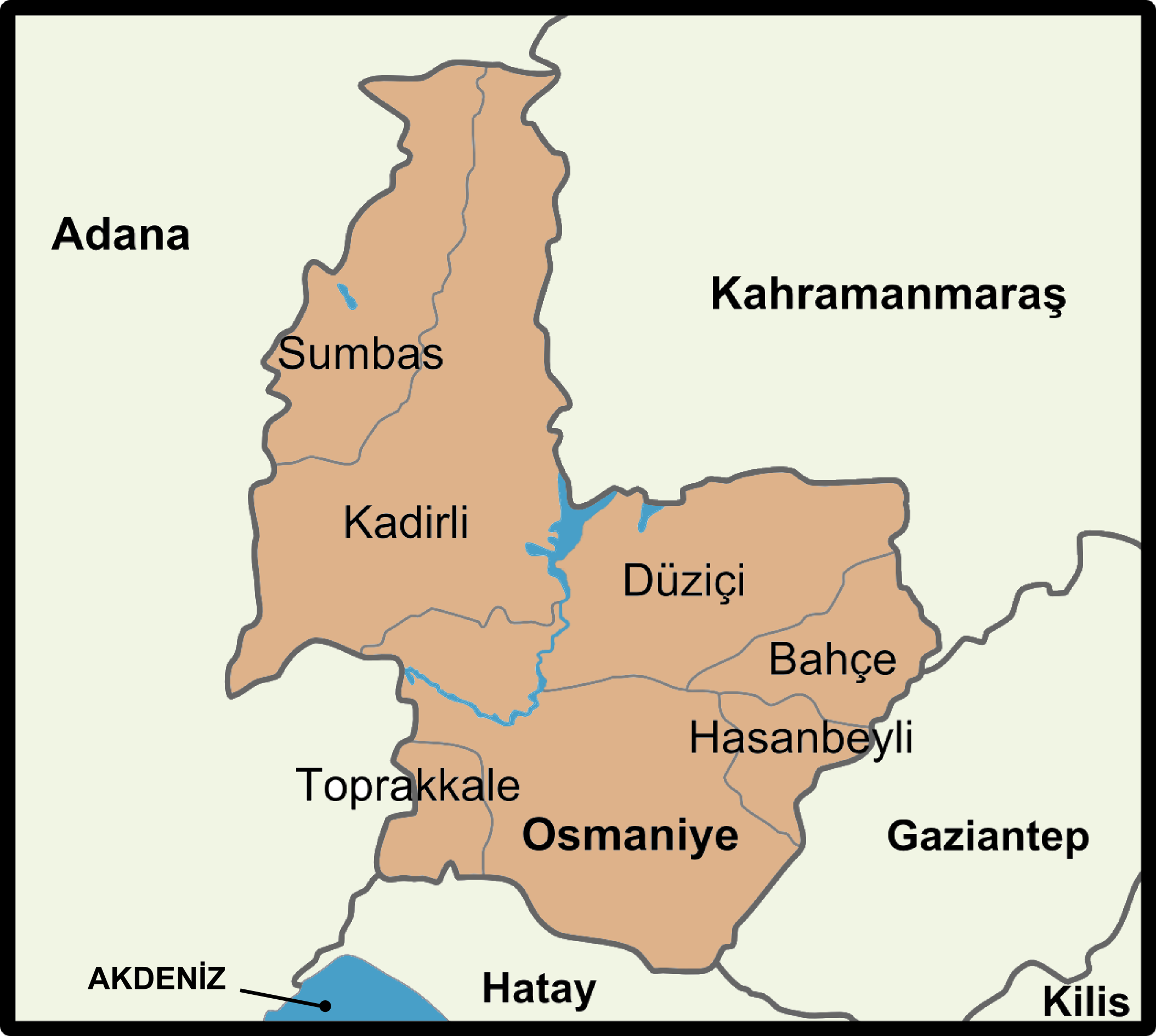 Map of the districts of Osmaniye Province, Turkey.